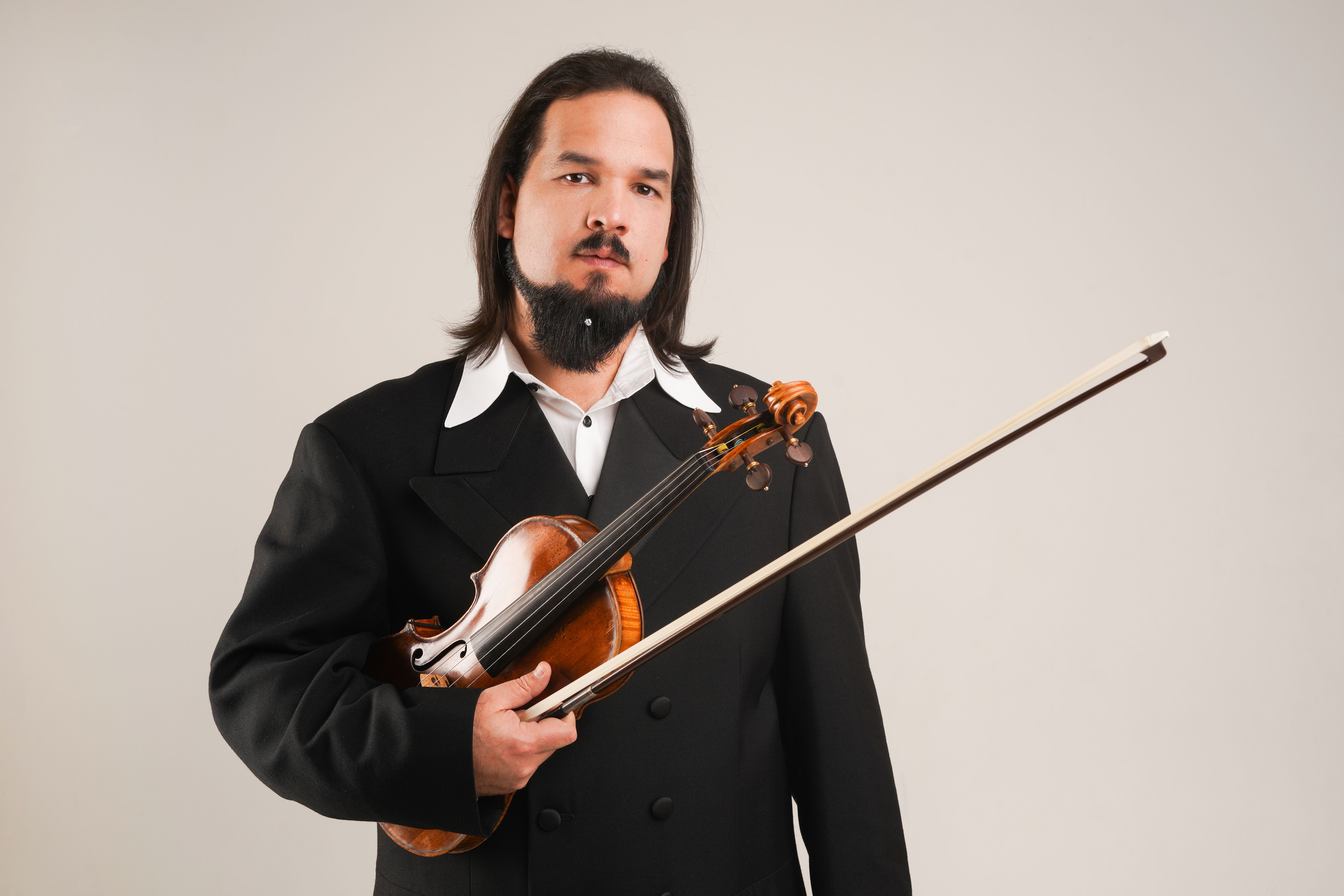 Portrait of Antal Zalai violinist